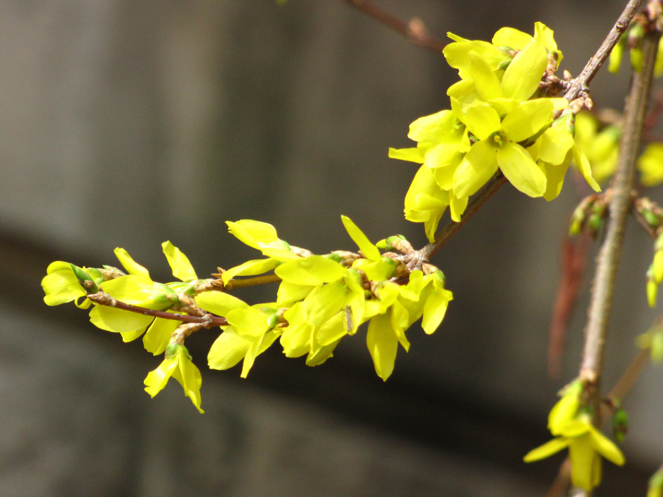 Gaenari (Korean goldenbell tree)